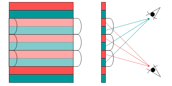 See [1]. This image is flawed and should not be used. Funktionsweise eines Linsenraster-Bildes, This is a diagram to illustrate how a lenticular lens makes a lenticular print. A green image and a red image are cut into strips and combined. A specially shaped lens is placed over a pair of strips. As the viewing angle changes, you will see either the green or the red image. This process can also be used for more than two images.